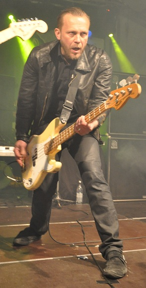 Heikki Kiviaho